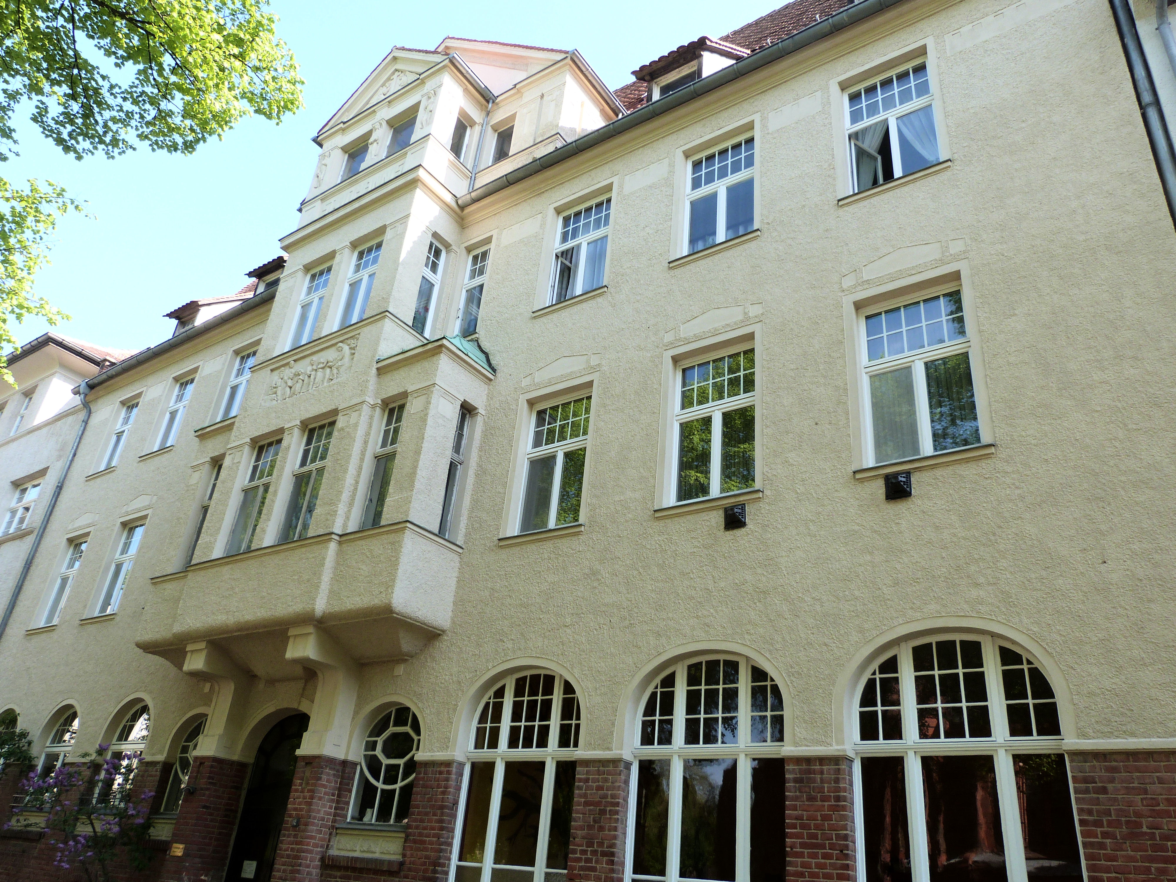 House No. 2, An der Johanneskirche in Halle (Saale)